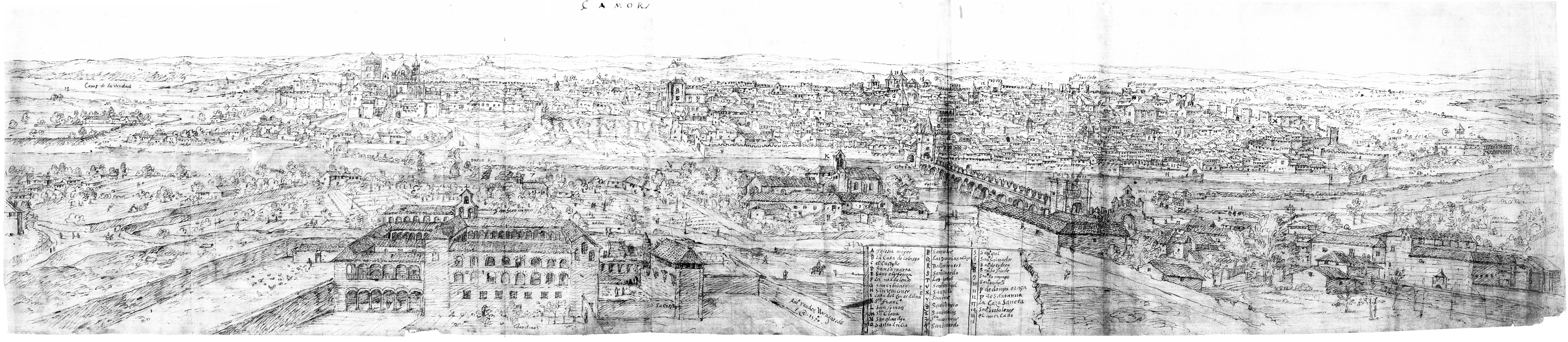 View of Zamora (Spain)